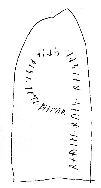 Runestone DR 265, Hybystenen 2 (The Hyby stone 2), in Skåne, Sweden, depicted by Nils Wessman in about 1757. The stone is not to be found since around 1850.